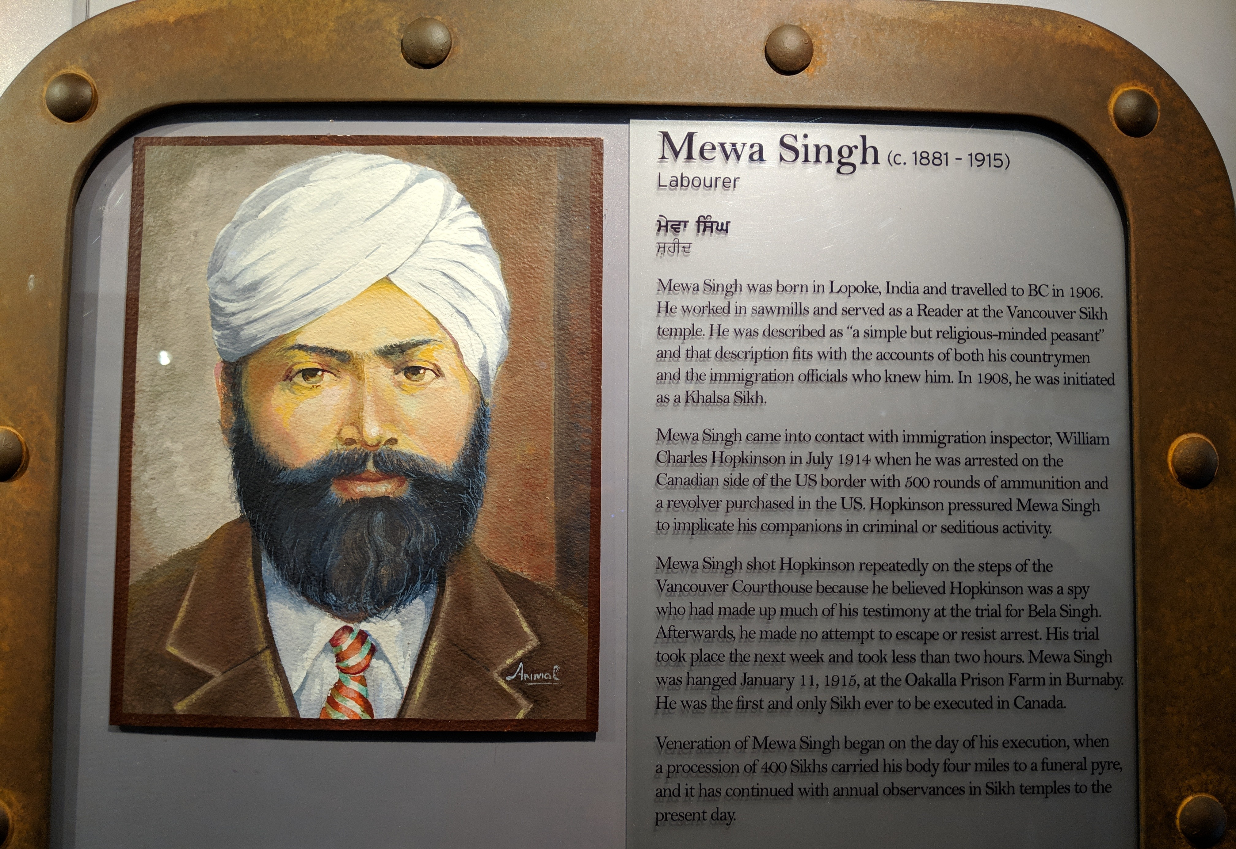 This is a profile of Mewa Singh displayed by the Khalsa Diwan Society Sikh Temple in their Komagata Maru Museum. Under his profile is one about W. C. Hopkinson.